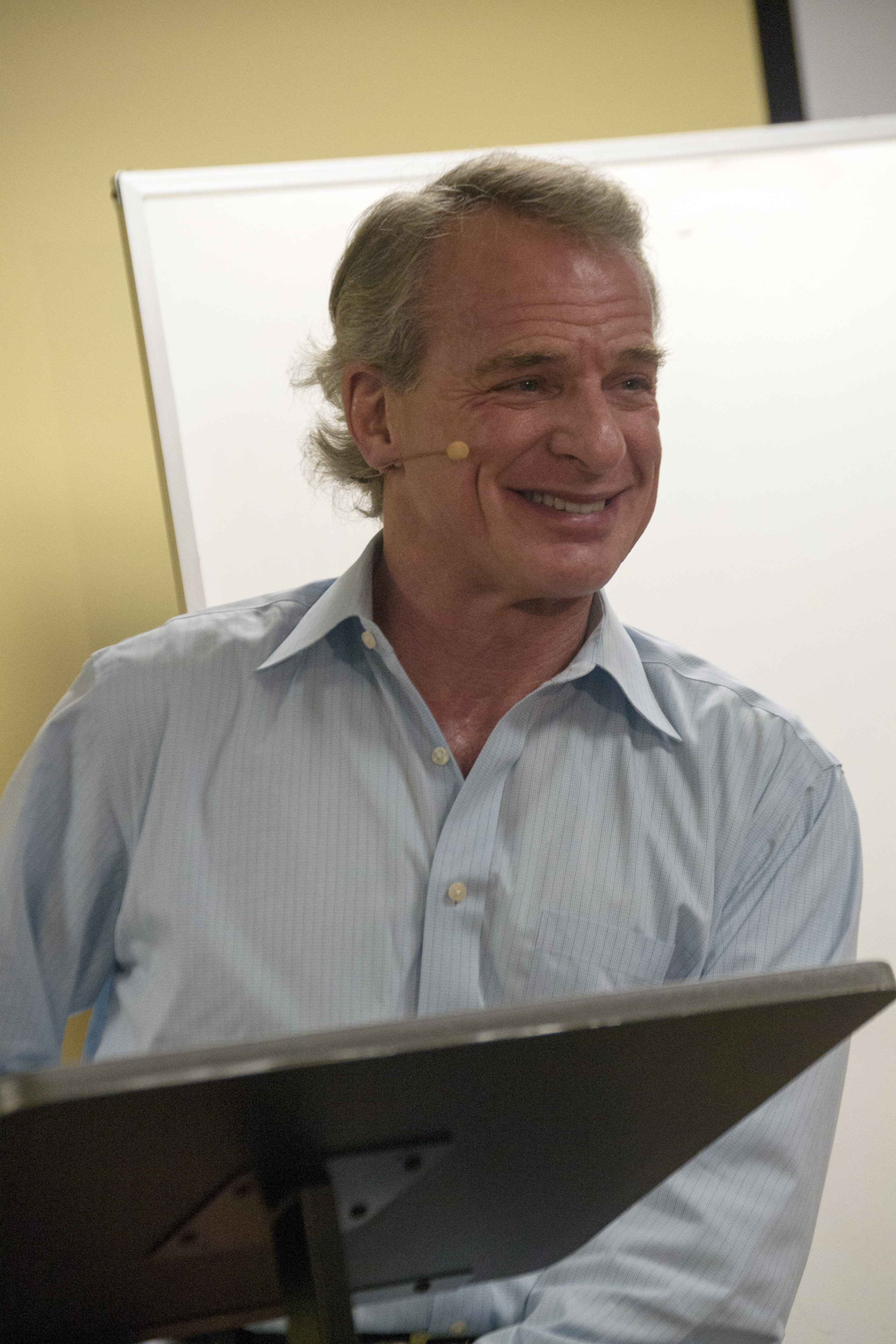 Dr. Craig at the Coherence of Theism Seminar